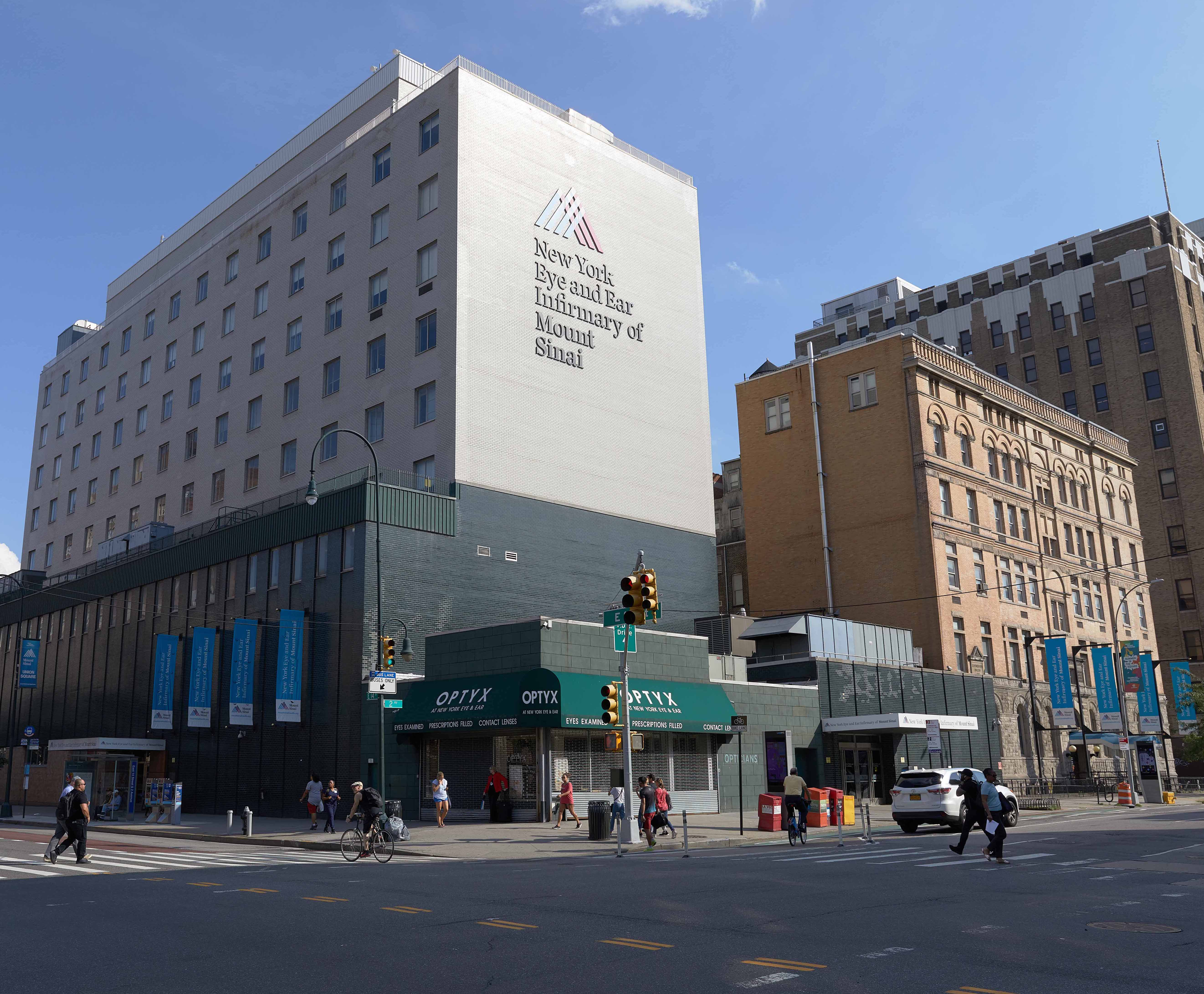 New York Eye and Ear Infirmary's main hospital and campus buildings at 14th and 2nd Avenue in New York City.